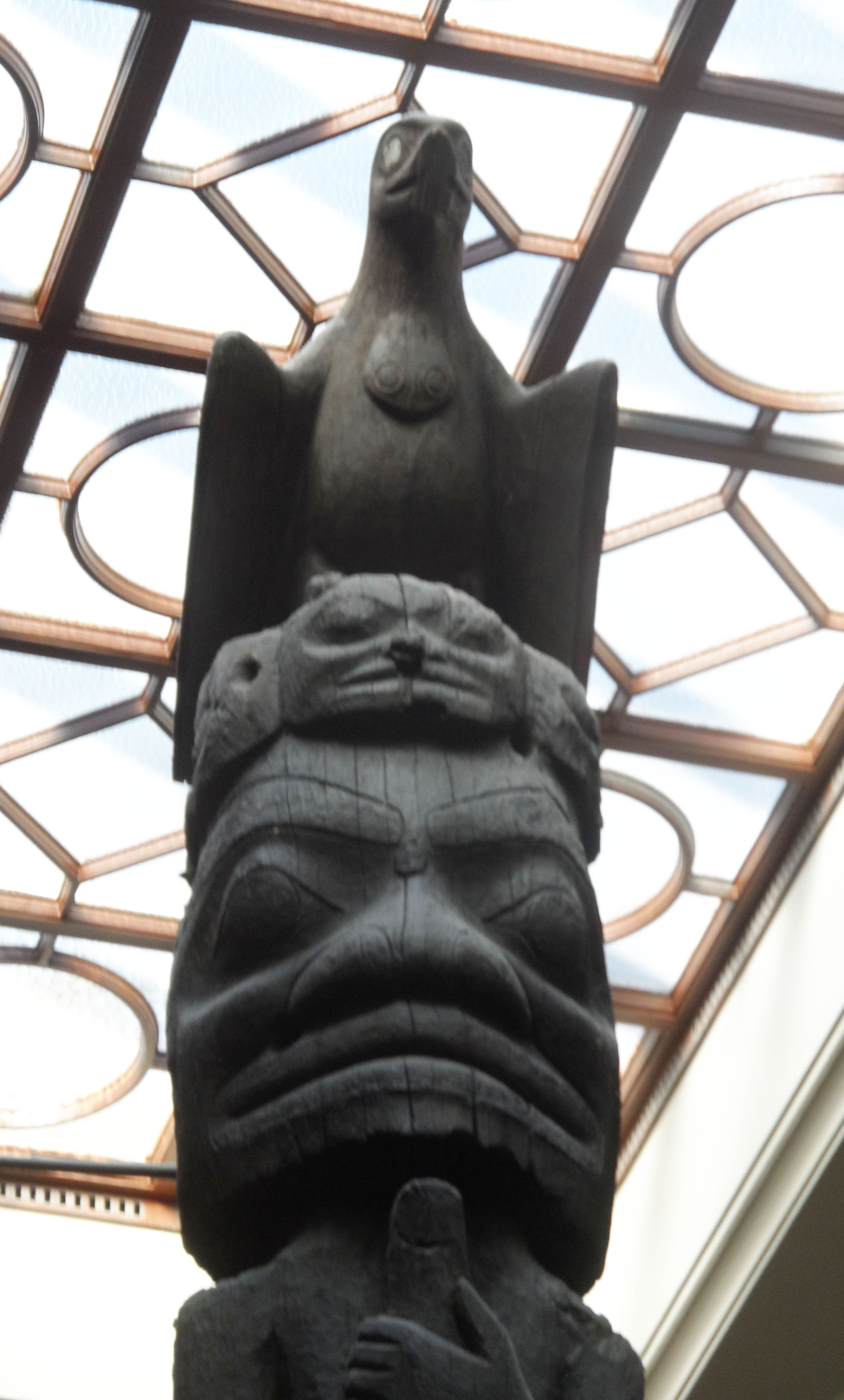 Top Section of Sagaween Pole